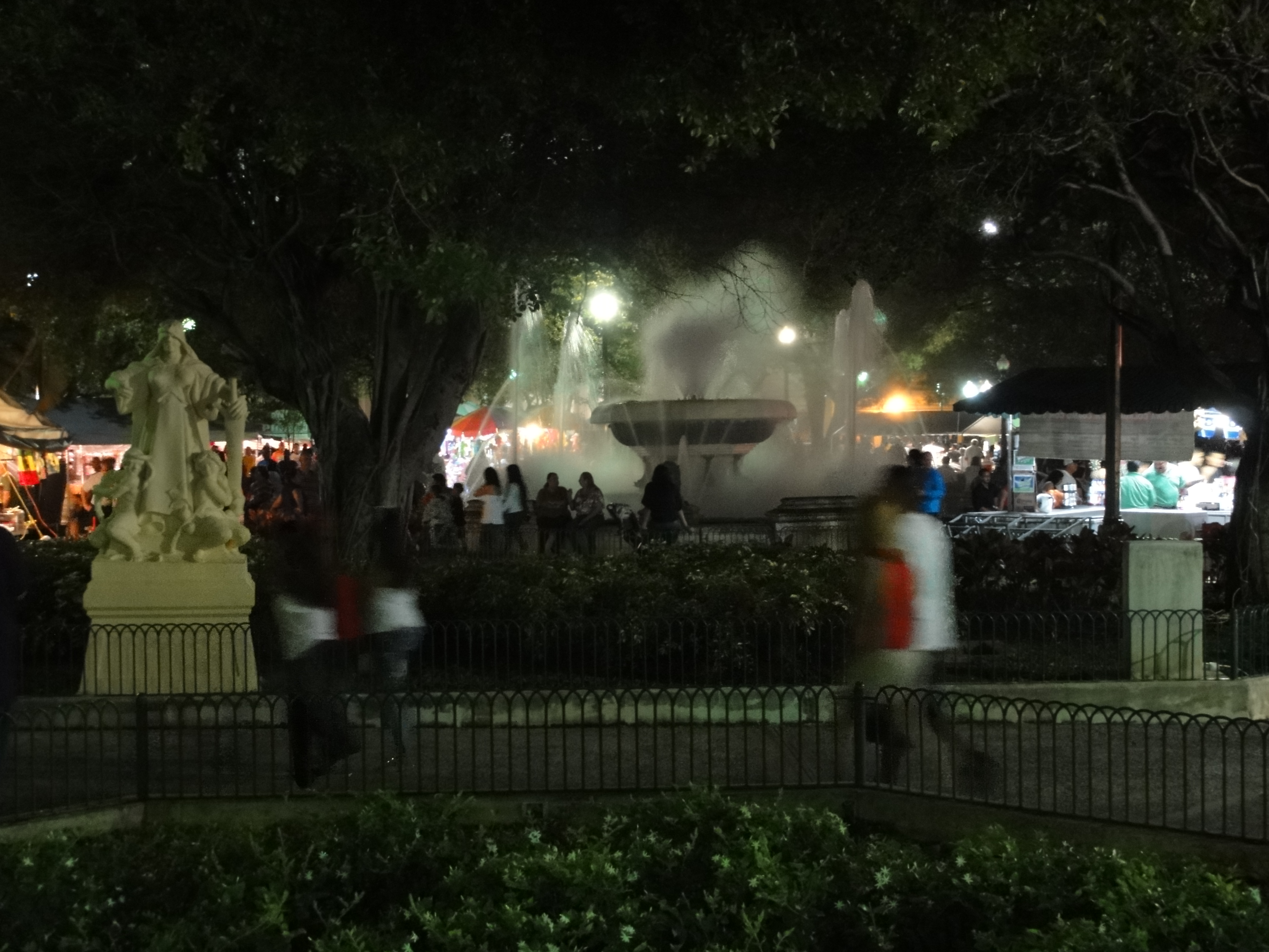 Fuente de los leones, Plaza Degetau, Bo. Segundo, Ponce, Puerto Rico, mirando al este (DSC02472)